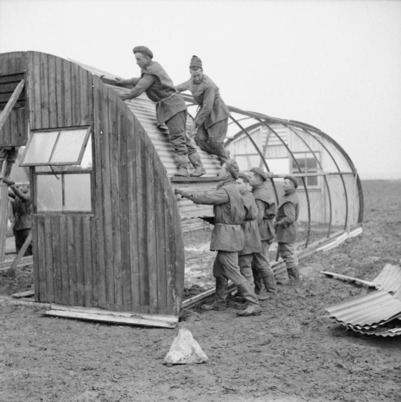 The British Army in the United Kingdom 1939-45 Nissen huts being erected at an anti-aircraft gun site, 20 November 1944.